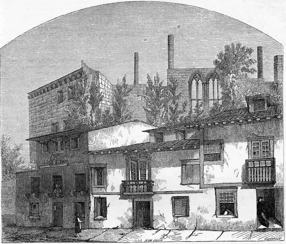 The ruins of the Palace of the Dukes of Braganza, as seen from the demolished Rua de Santa Cruz